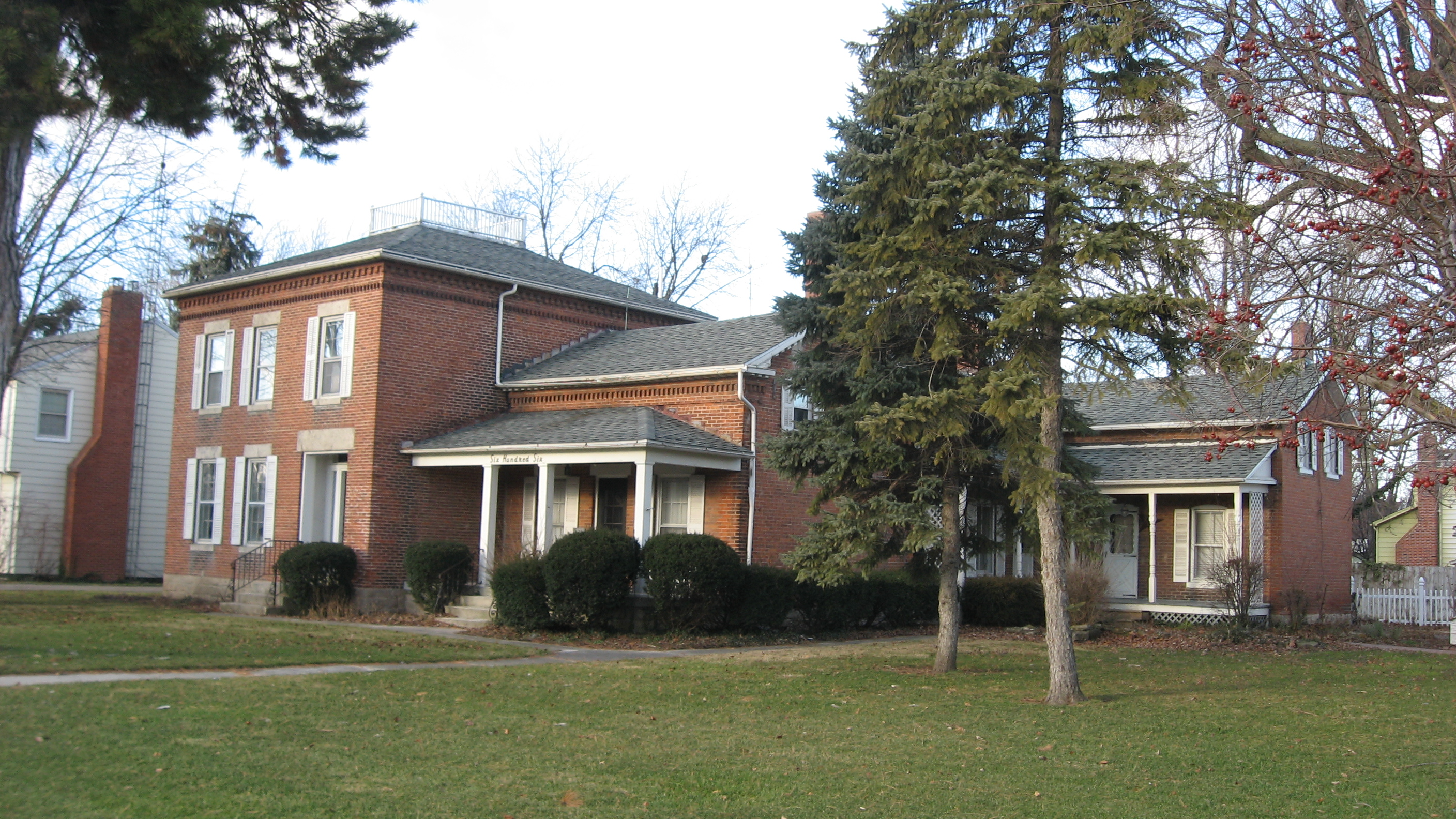 Front of the Georg Cronenwett House, located at 606 W. Main Street (U.S. Route 20/State Route 105) in Woodville, Ohio, United States. Built in 1858 as Woodville's first parsonage, it is listed on the National Register of Historic Places.